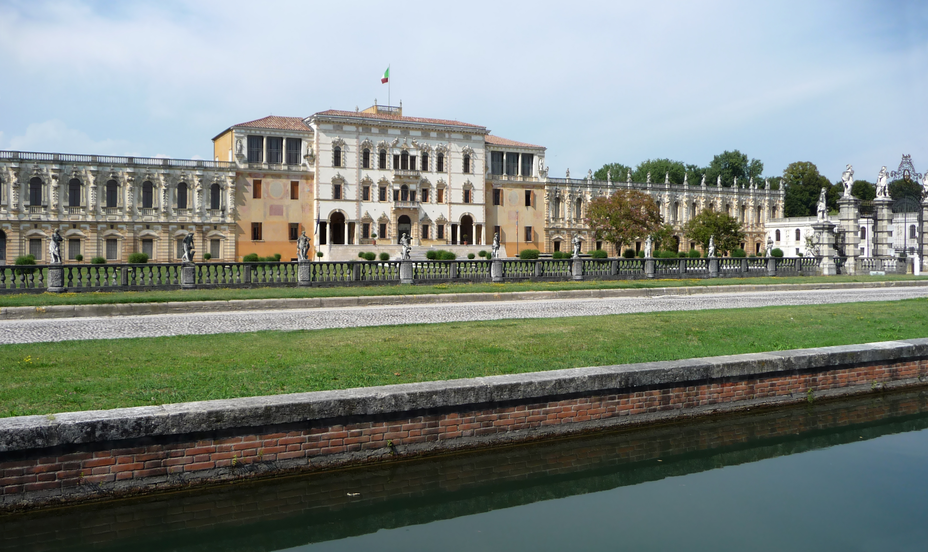 Villa Contarini is a patrician villa veneta in Piazzola sul Brenta, province of Padova, northern Italy. (→Villa Contarini)